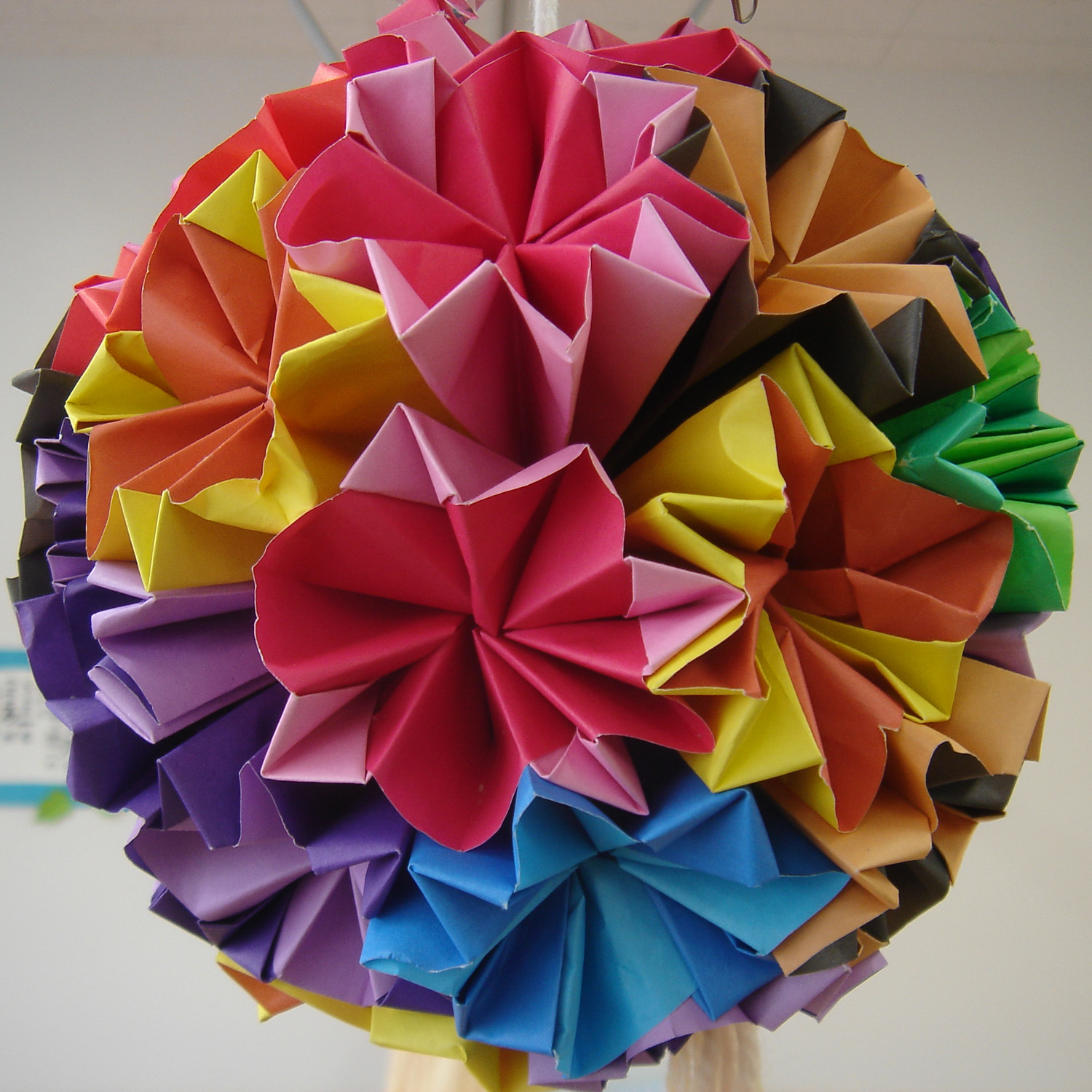 Origami ball with multi-coloured elements